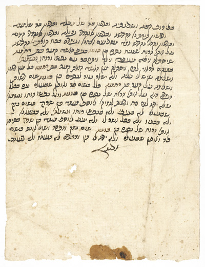 A document that details the prayers that were performed on Qamar bat Rahmah to try to rid her of the spirit of her dead husband, Nissim ben Bonia. According to the Hebrew text, the rabbis asked the ghost to “leave this woman, Qamar bat Rahmah, [and forgo] all authority and control that it has over her; and Nissim ben Bonia shall have no more authority and control whatsoever over Qamar bat Rahmah in any form or manner at all.” The document was found in the abandoned recesses of the Cairo Geniza, a storeroom attached to a Cairo synagogue, and is believed to date to the 18th or 19th century. It is now kept in custody at the University of Manchester. The document is unique in that it describes a real event, where you see how they come together and pray in order to exorcise the ghost from a widow.